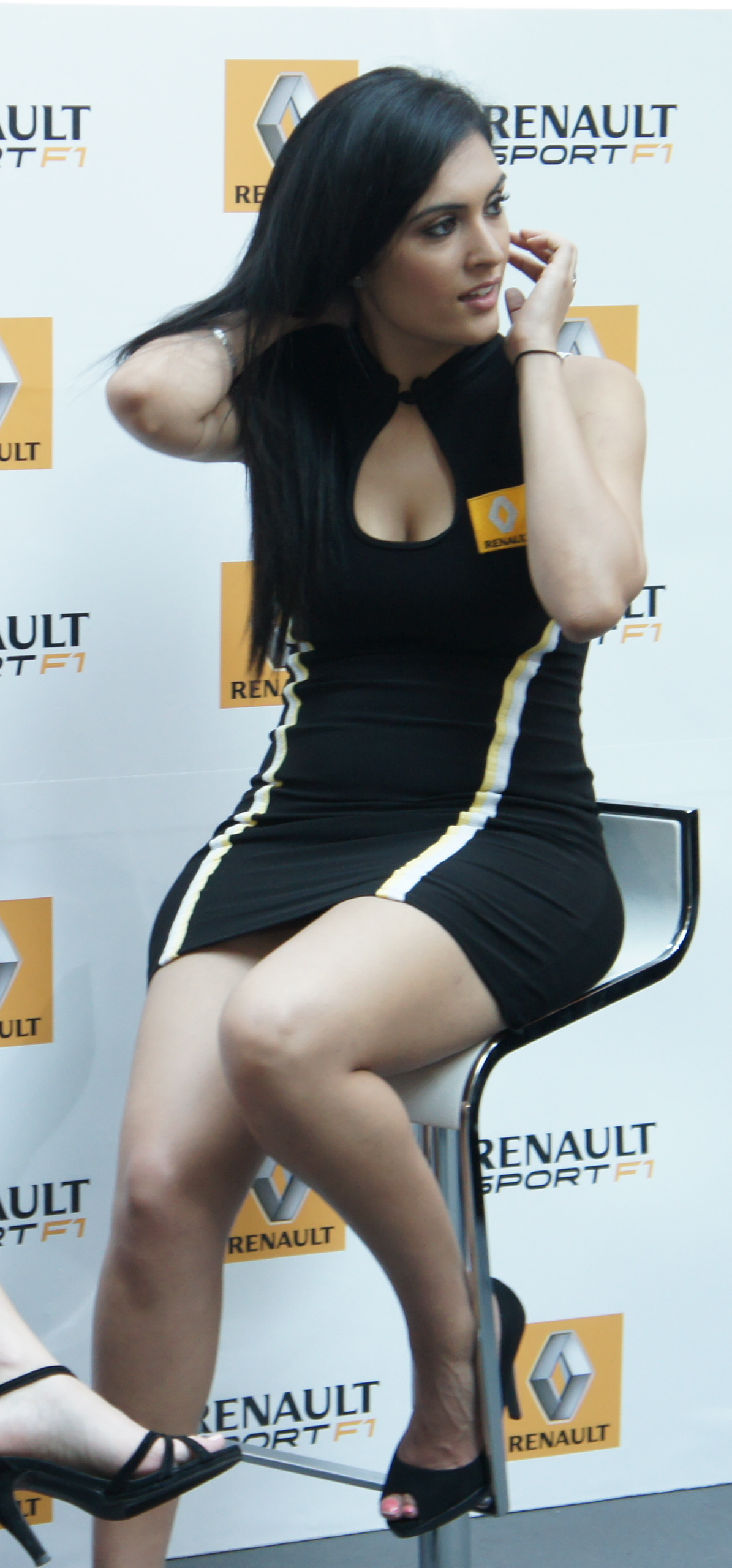 Gorgeous women sitting on high chairs in short dresses. They are smiling for the camera and waiting for the main stars to arrive. Both models work part time. This beautiful picture was created for my long friend epSos.de. Other friends can use it too.